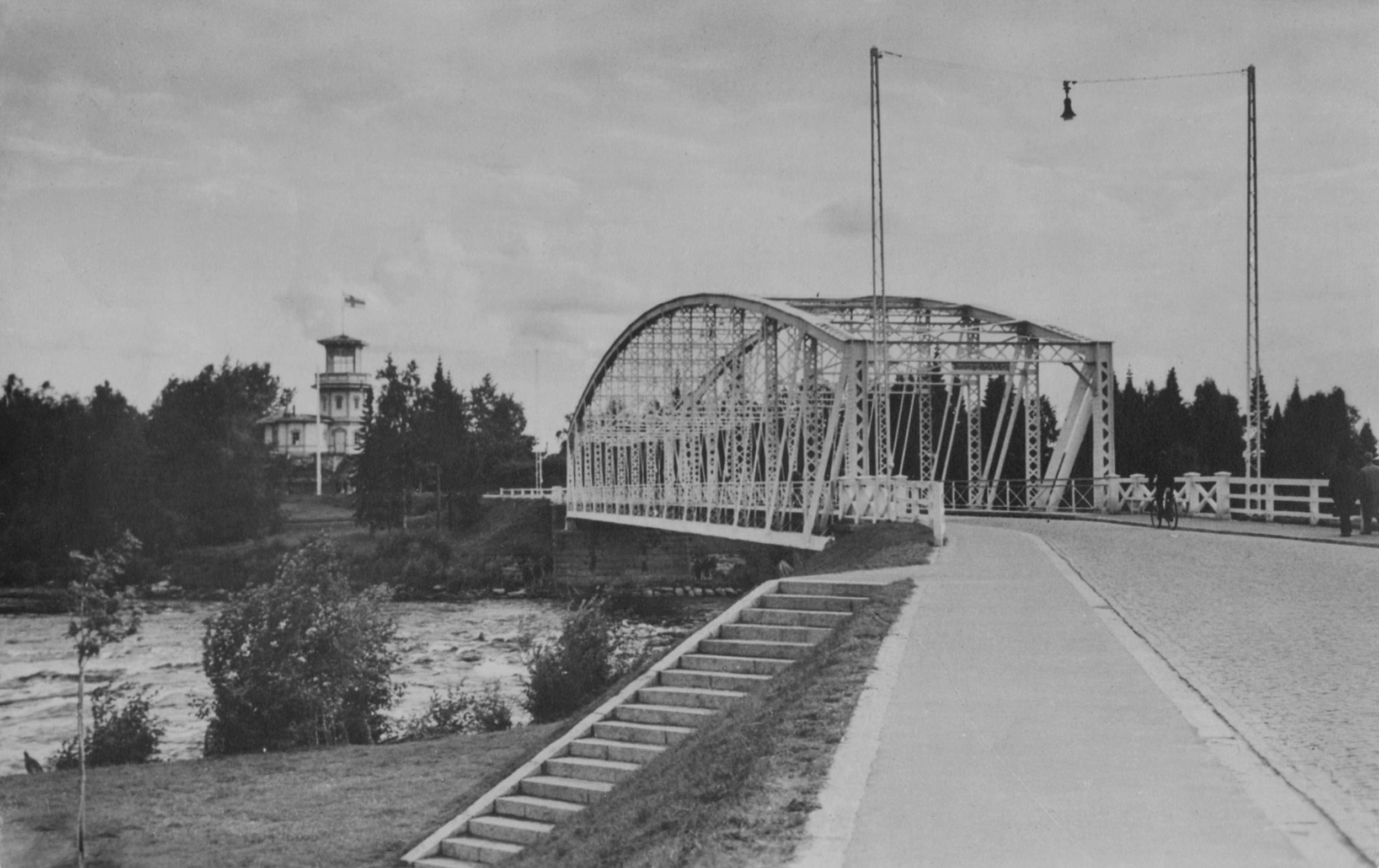 Former Ämmänväylä bridge was built in 1890 and replaced with a new bridge in 1950.